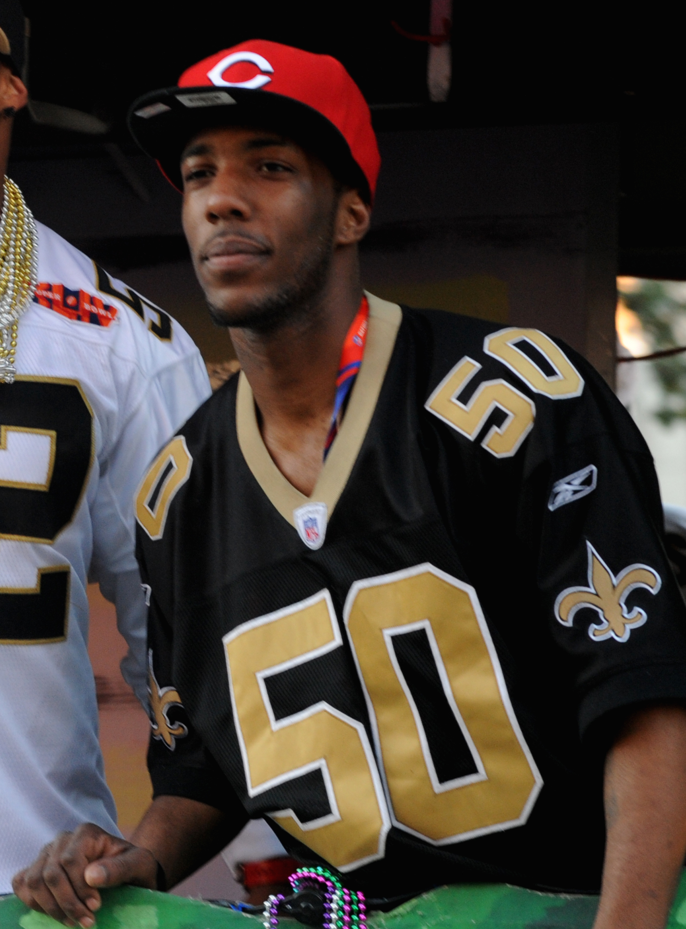 Photo of a man in a red cap with the letter "C". The Saints' Victory Parade. New Orleans, February 9, 2010